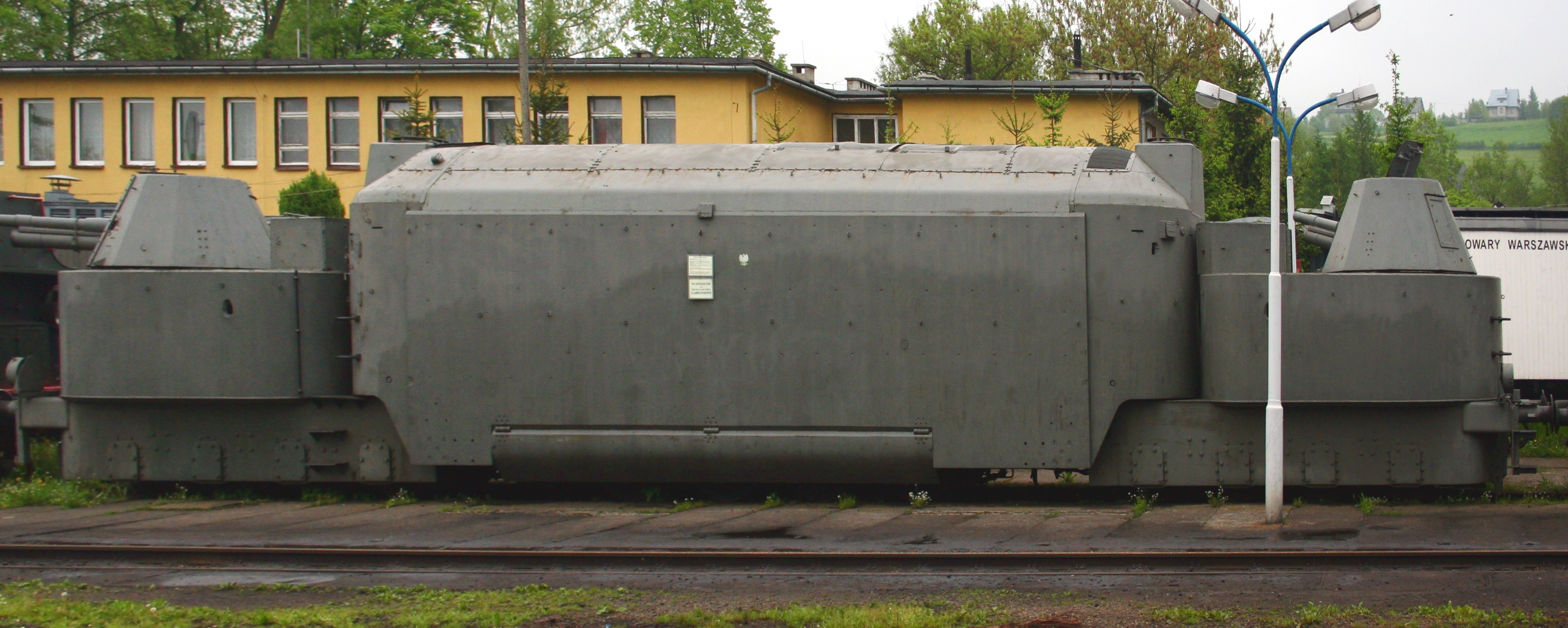 The German armoured motor railcar Panzertriebwagen 16 (PT 16) at Chabówka Rolling-Stock Heritage Park, Poland (temporary exhibition - owned by Museum of Railways in Warsaw